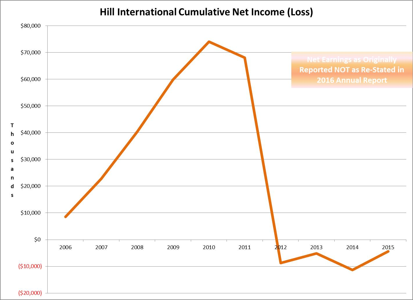 Graphic of HIL (HINT) earnings from 2006-2015